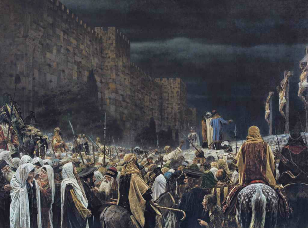 Vasily Vereshchagin - Crucifixion by the Romans (1887).